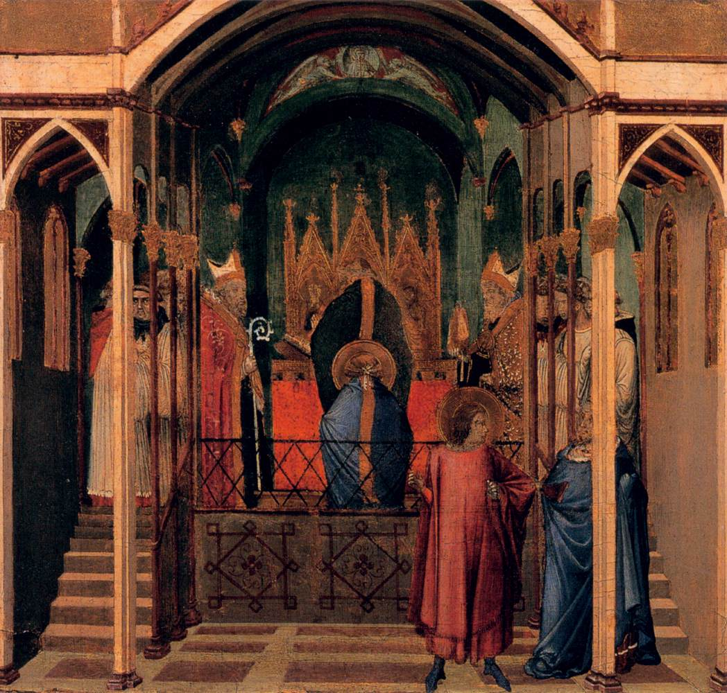 LORENZETTI, Ambrogio Scenes of the Life of St Nicholas Tempera on wood Galleria degli Uffizi, Florence